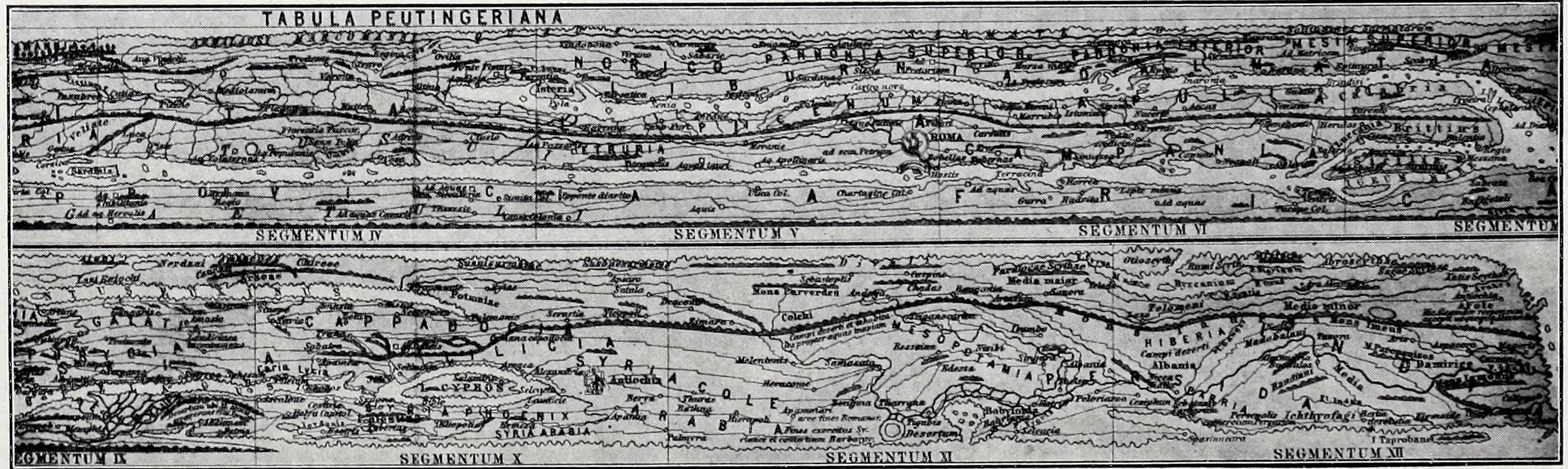 Caption: Portion of the Peutinger Tables, from Justus Perthes, Atlas Antiquus.See here and here for charts explaining the content of the sections of the map.